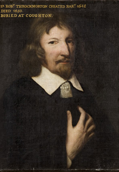 Portrait of Sir Robert Throckmorton, 1st Baronet (1599–1650); Sr. Rob.t Throckmorton created Bart. 1642 Died 1650 Buried at Coughton.